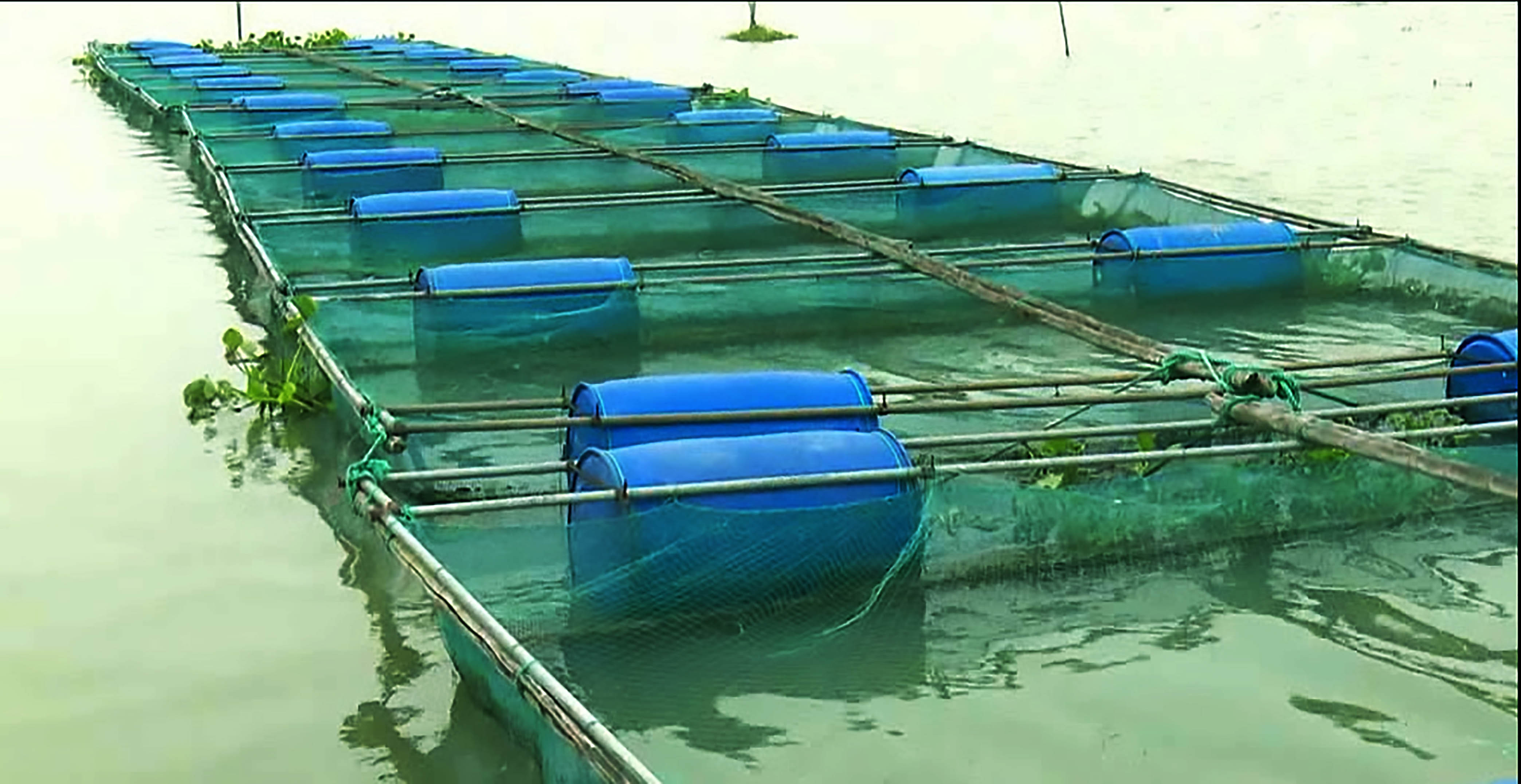 Fish farming in cage